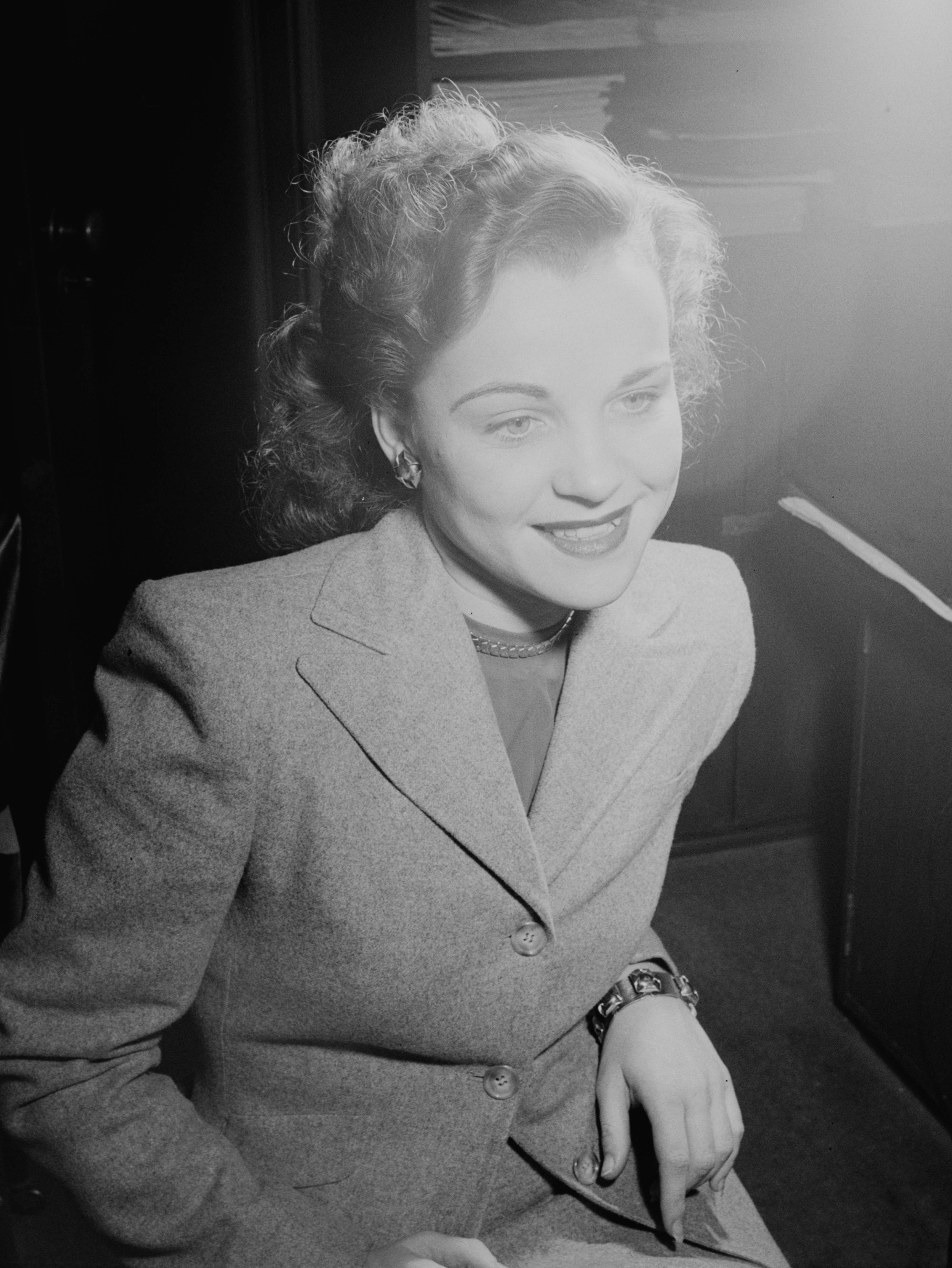 Eve Young